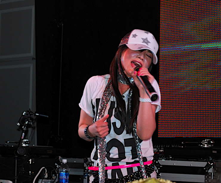 Sister MAYO performing at the University of Maryland during Akiba Fest Pop The Rock Japan Music Showcase in 2009.